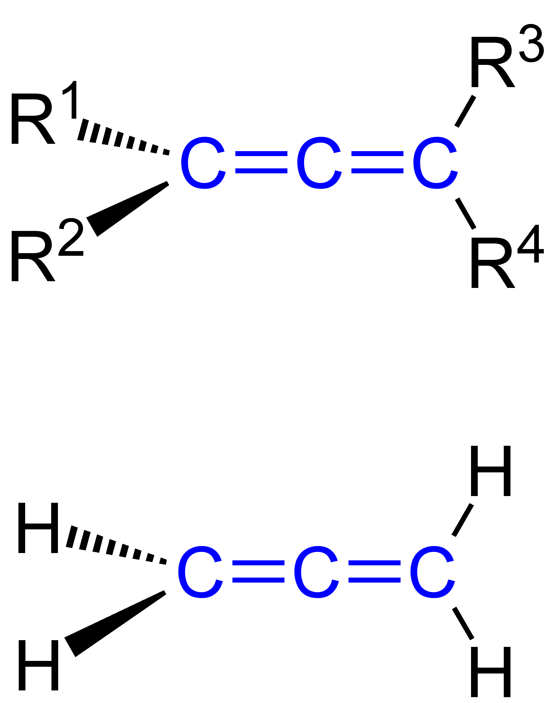 Allenes_General_Formulae